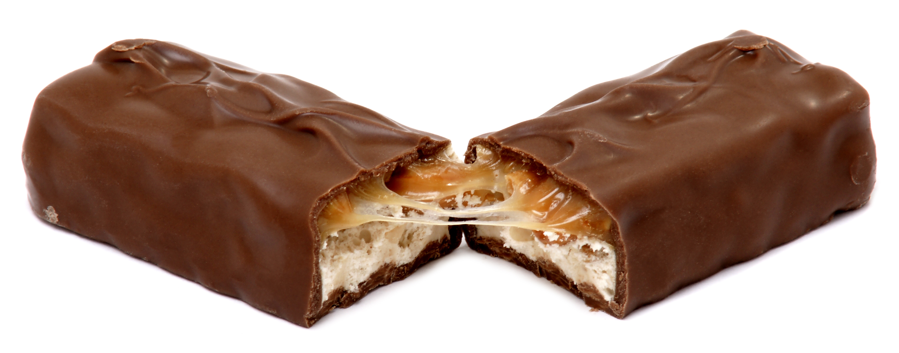 A Snickers candy bar, broken in half.